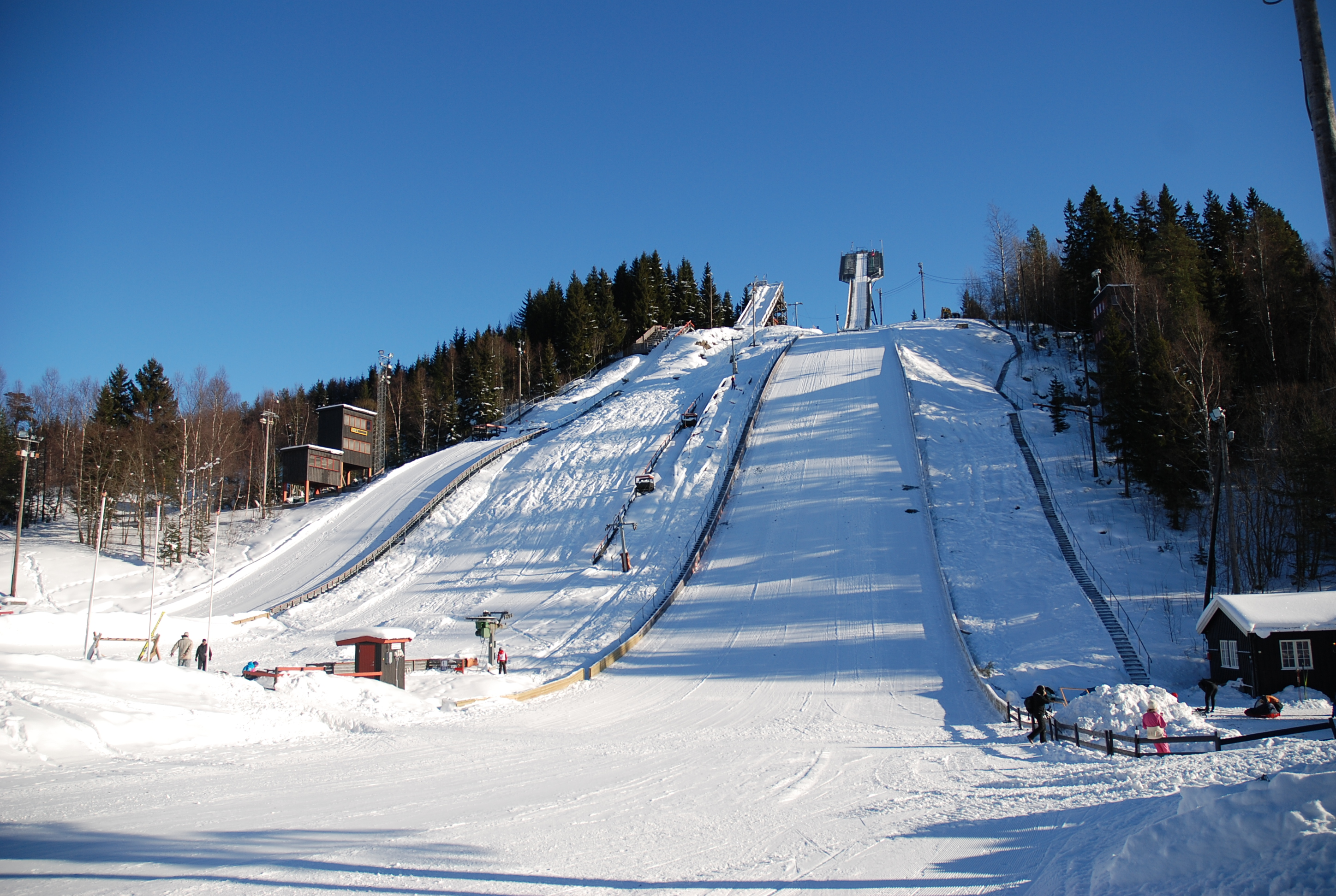 Overview from the bottom of the hill at Linderudkollen.